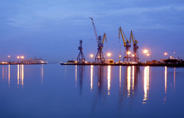 Dusk at Belfast docks. A view towards the Belfast Dry Dock 878914 at dusk. See also 9637123 and 9637134 for some related images. You might just be able to see the top of the high speed catamaran 'Express' 9637142 which has docked for its annual service.